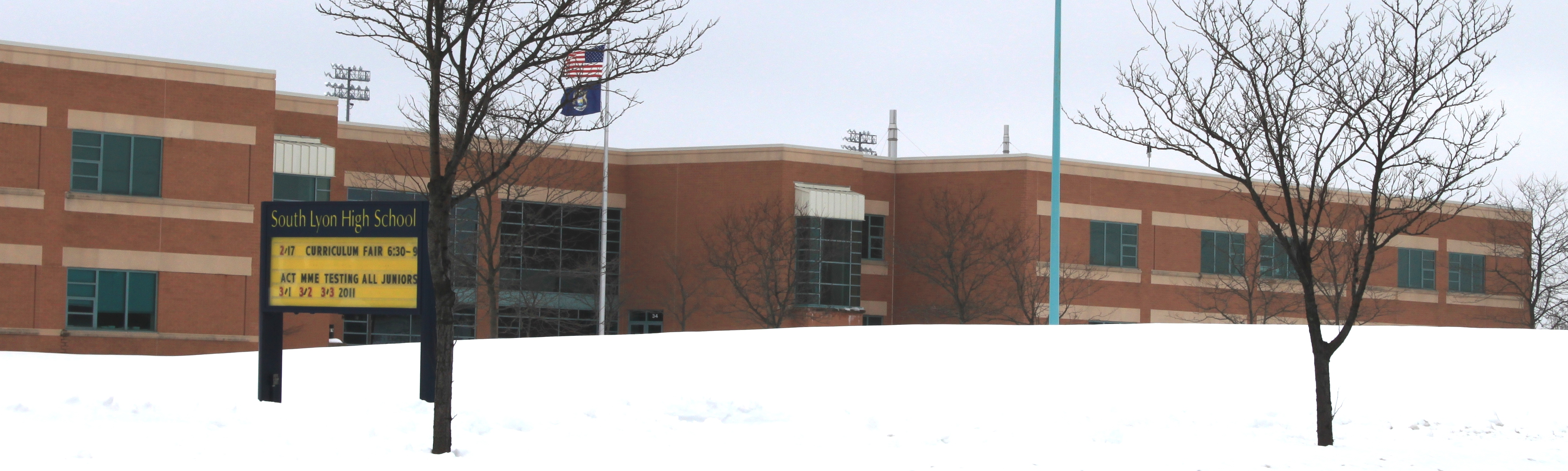 South Lyon High School, 1000 North Lafayette, South Lyon, Michigan